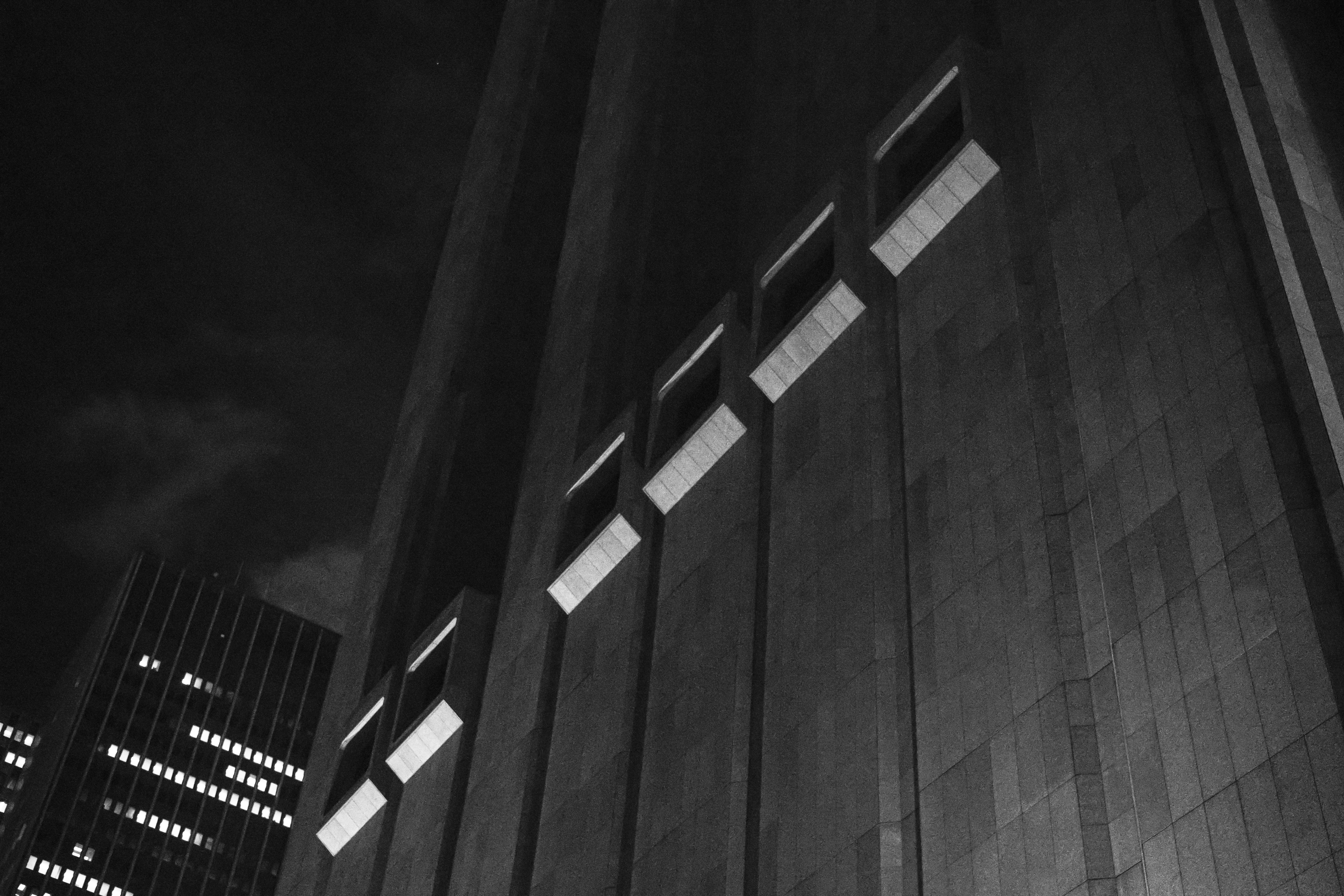 serves a purpose.